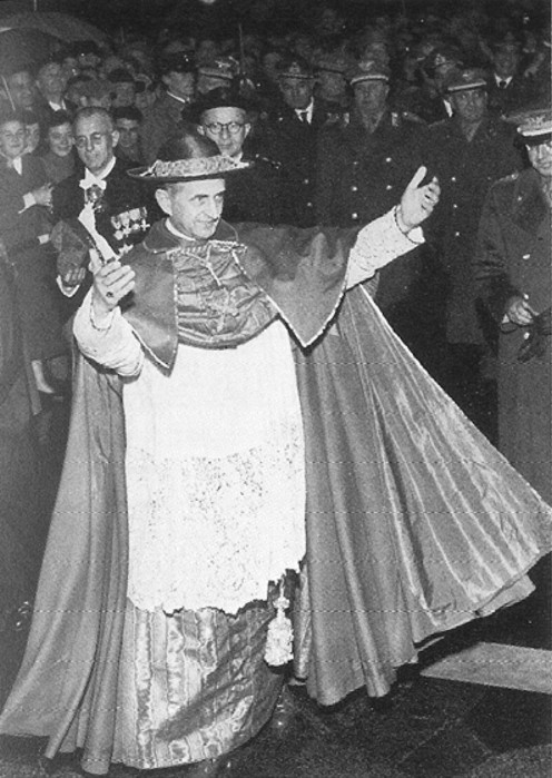 picture of cardinal montini